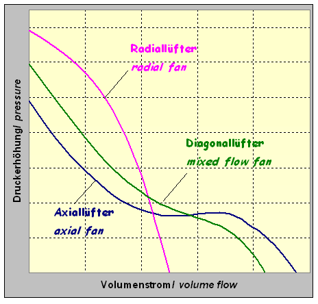 Typical fan characteristics of different fan types: axial fan, radial fan and mixed flow fan. Diagram based on:Harmsen: Gerätelüfter für die Elektronikkühlung. verlag moderne industrie 1991, Die Bibliothek der Technik Bd. 45, ISBN 3-478-93048-0.